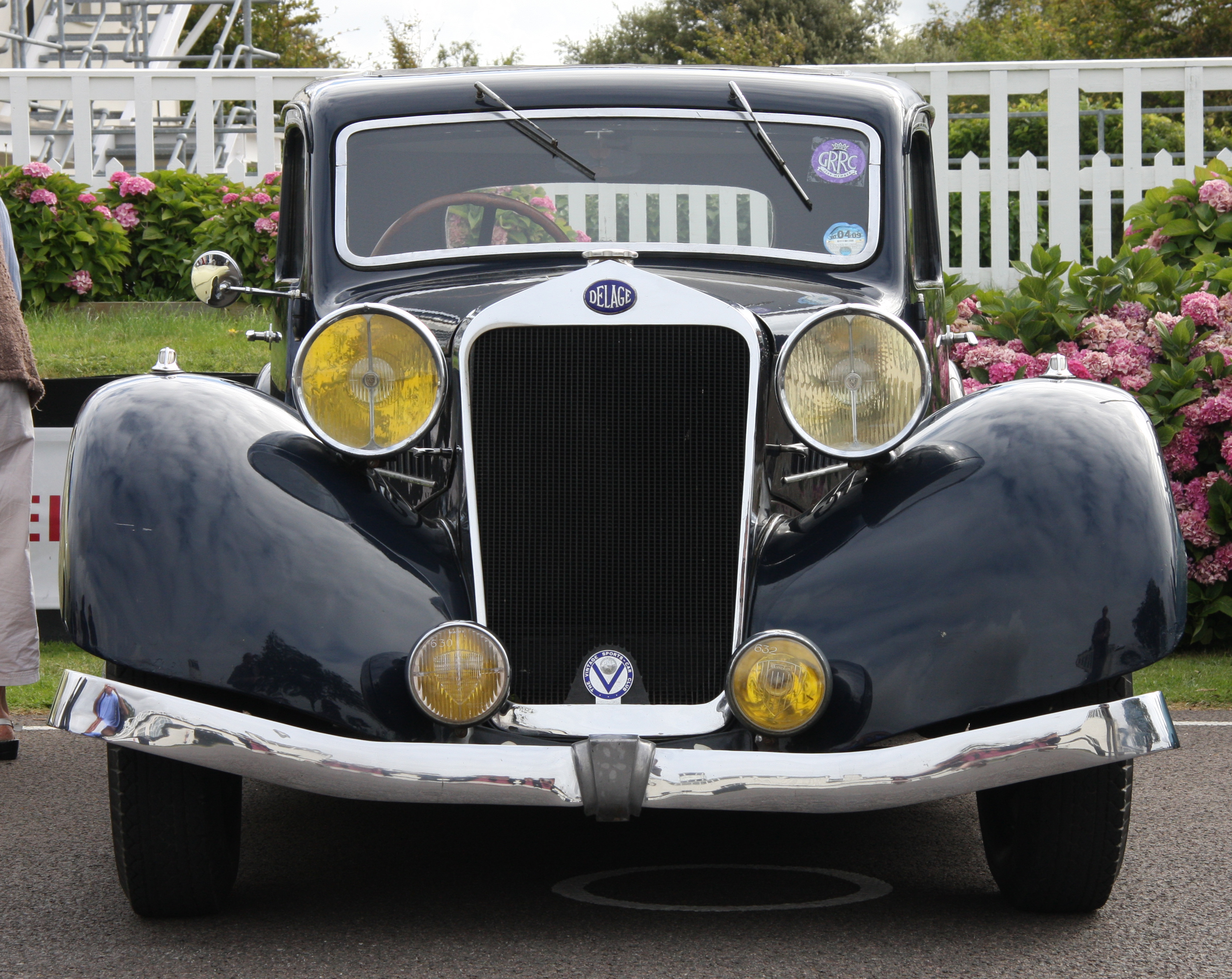 1936 Delage D6 60 Letourneur & Marchand sports saloon, 3.0 litres. Chassis and engine numbers are 50353.